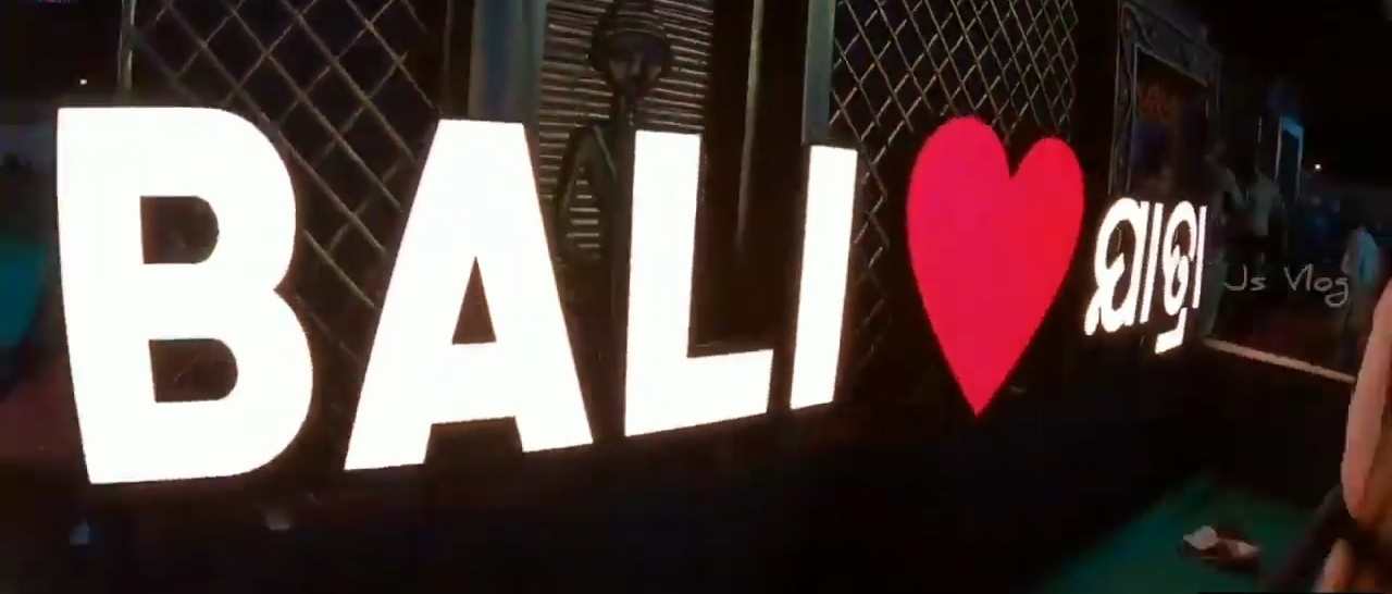 Balijatra at Cuttack